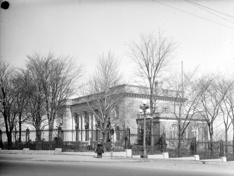 We see the mansion of Marius Dufresne (now Château Dufresne Museum) located at the intersection of Pie IX Boulevard and Sherbrooke Street East in Montreal.